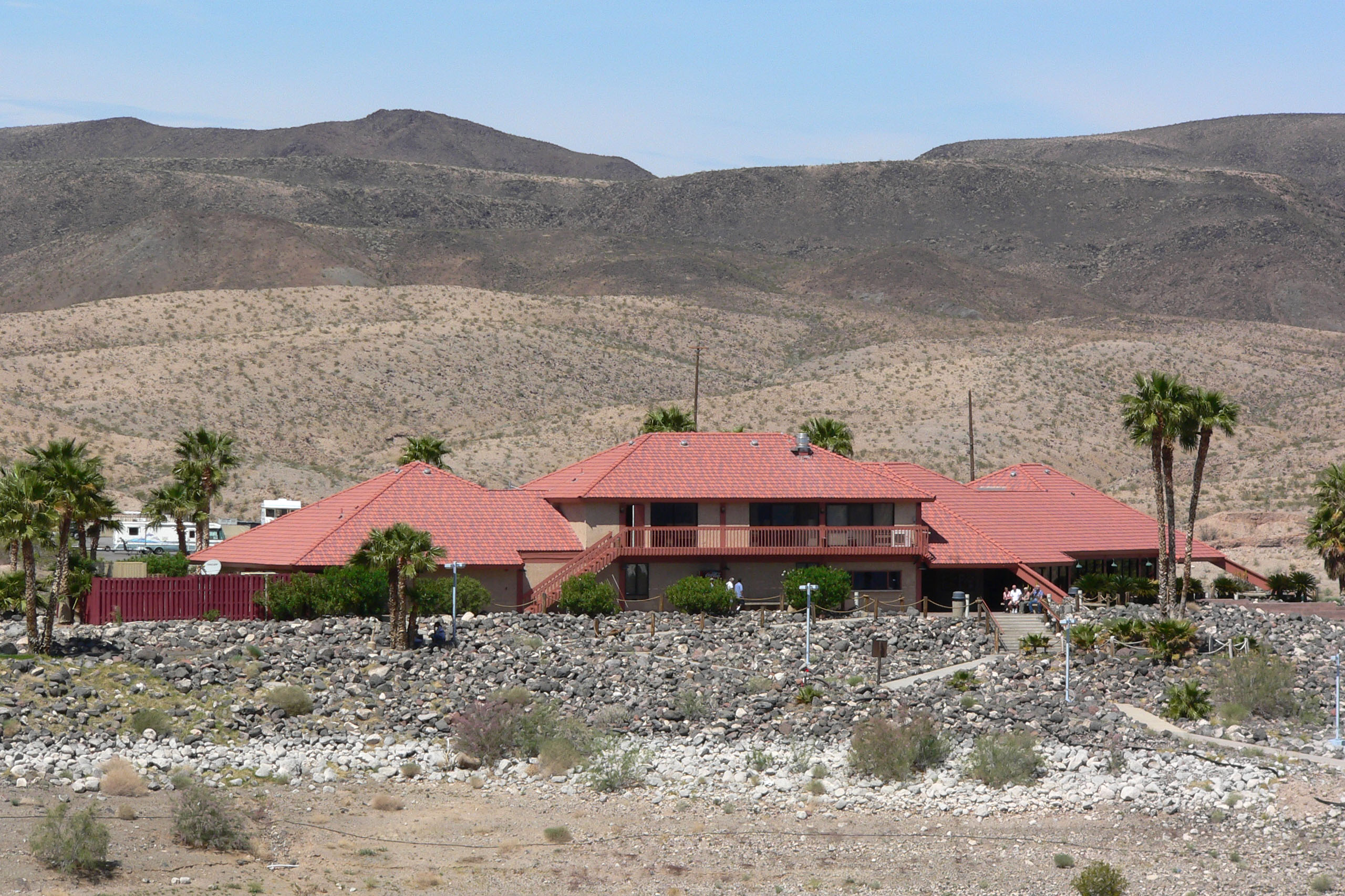 Callville Bay Marina, north shore of Lake Mead, southern Nevada